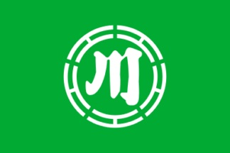 Flag of Kawagoe Mie